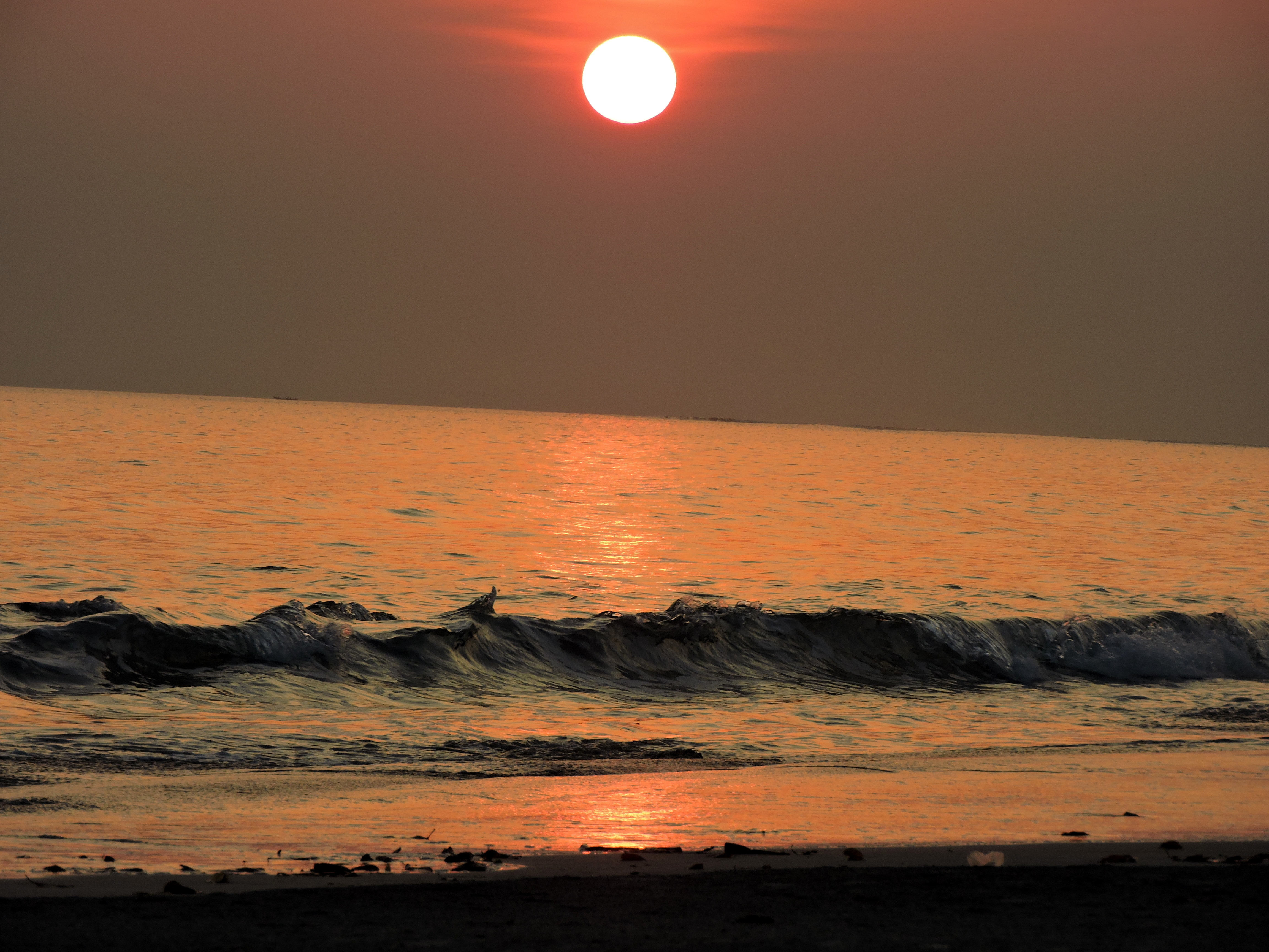 Radha Nagar beach , Havelock Island, Andamn,India- Sun set view